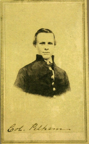 John Pelham's visit card